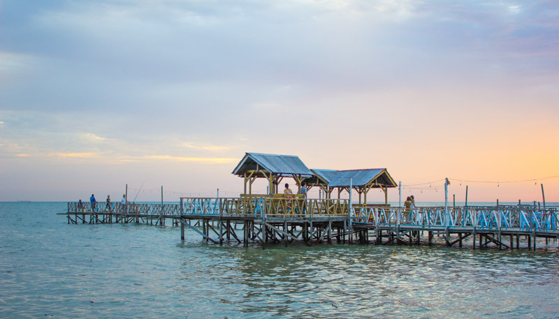 Armed with a Canon 60D, a review VW Passat, a HTC One M8, Lenovo Vibe Z and a Samsung GALAXY S5, I head down to the fishing village of Tanjong Sepat, 1.5 hours from Kuala Lumpur.